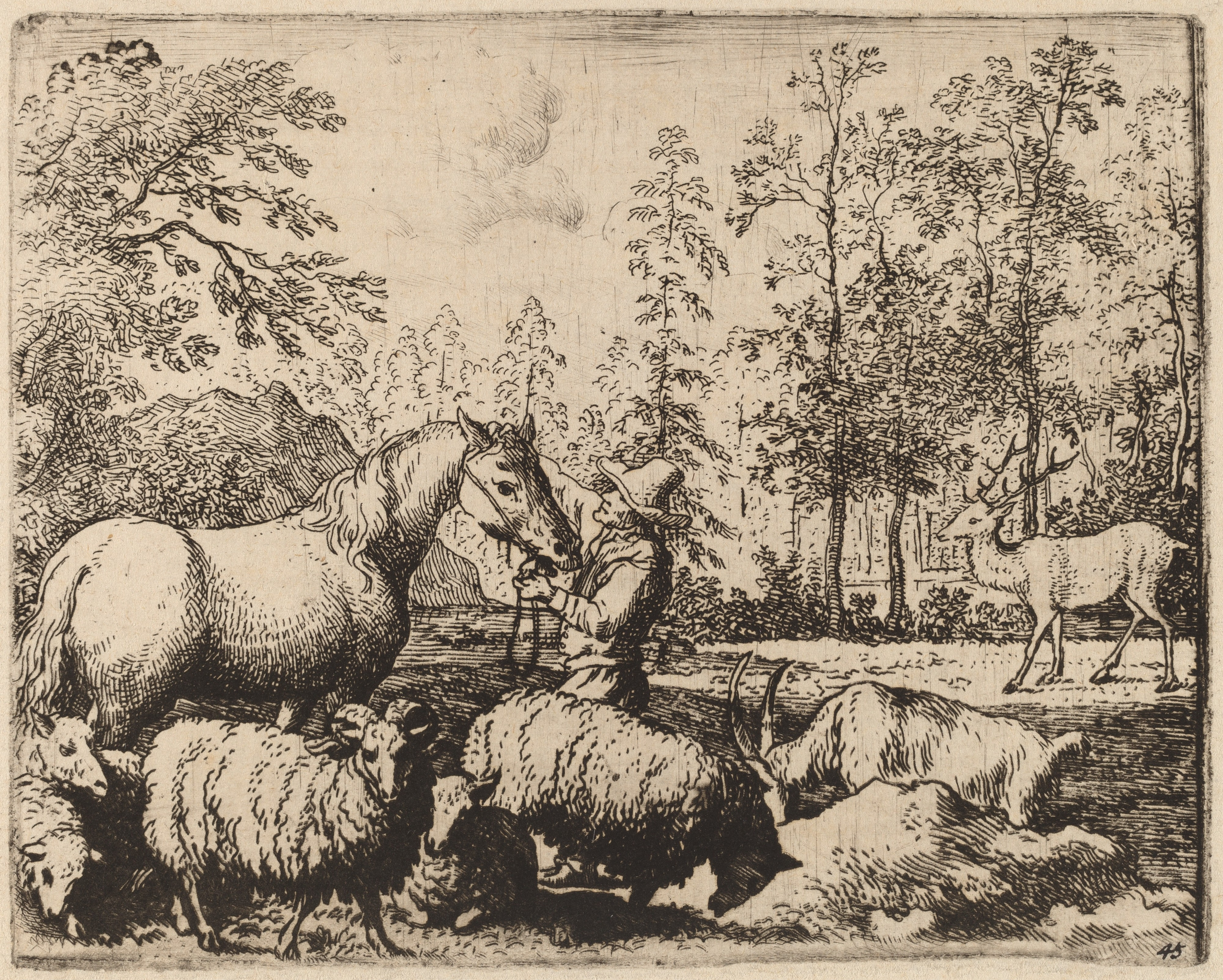 A 17th century Dutch etching of the fable of "The Horse and the Stag"